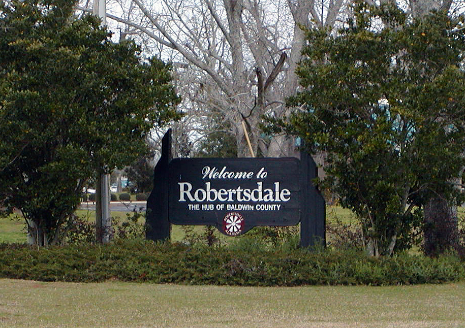 Robertsdale welcomesign